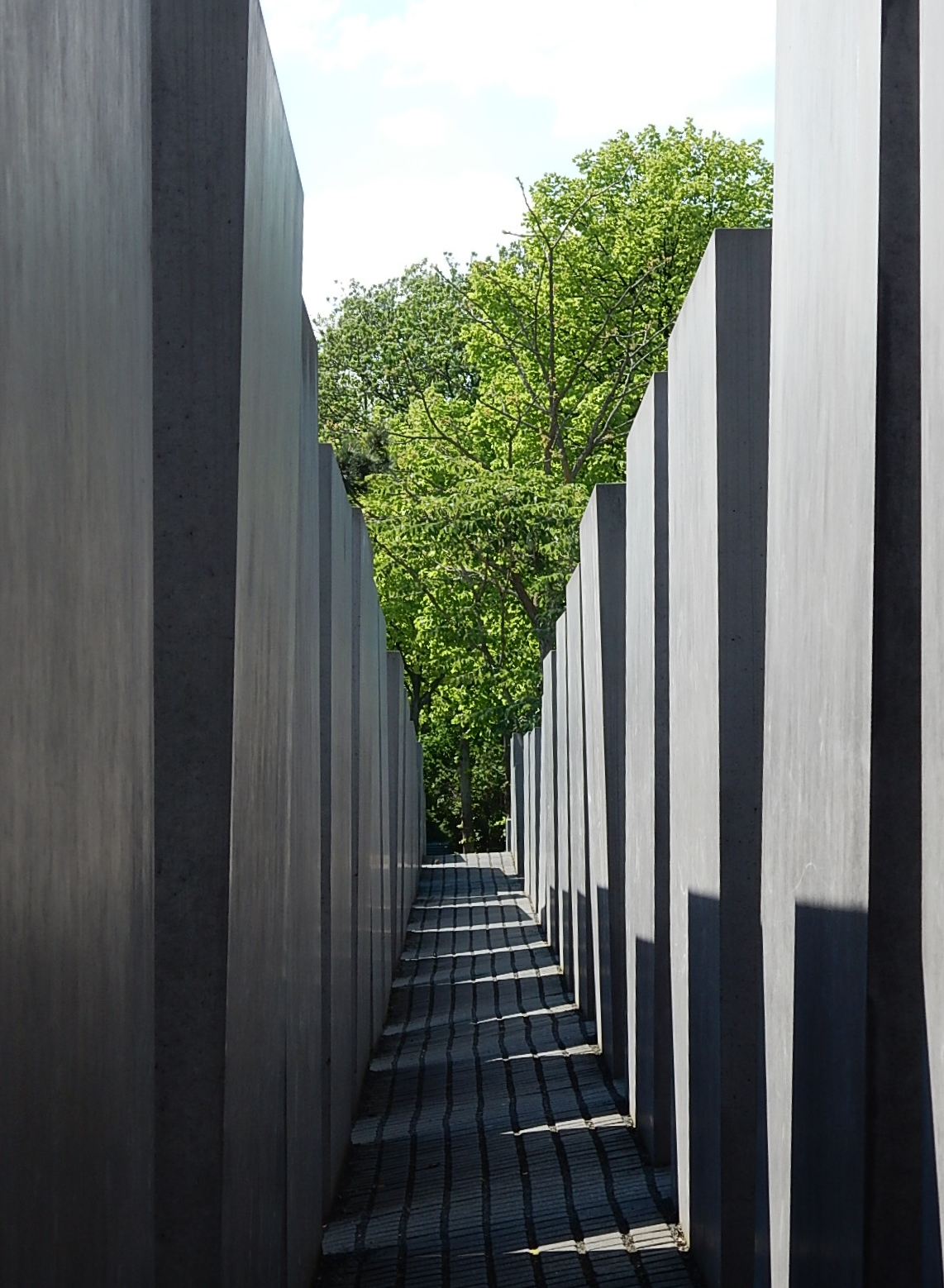 After All There's Hope